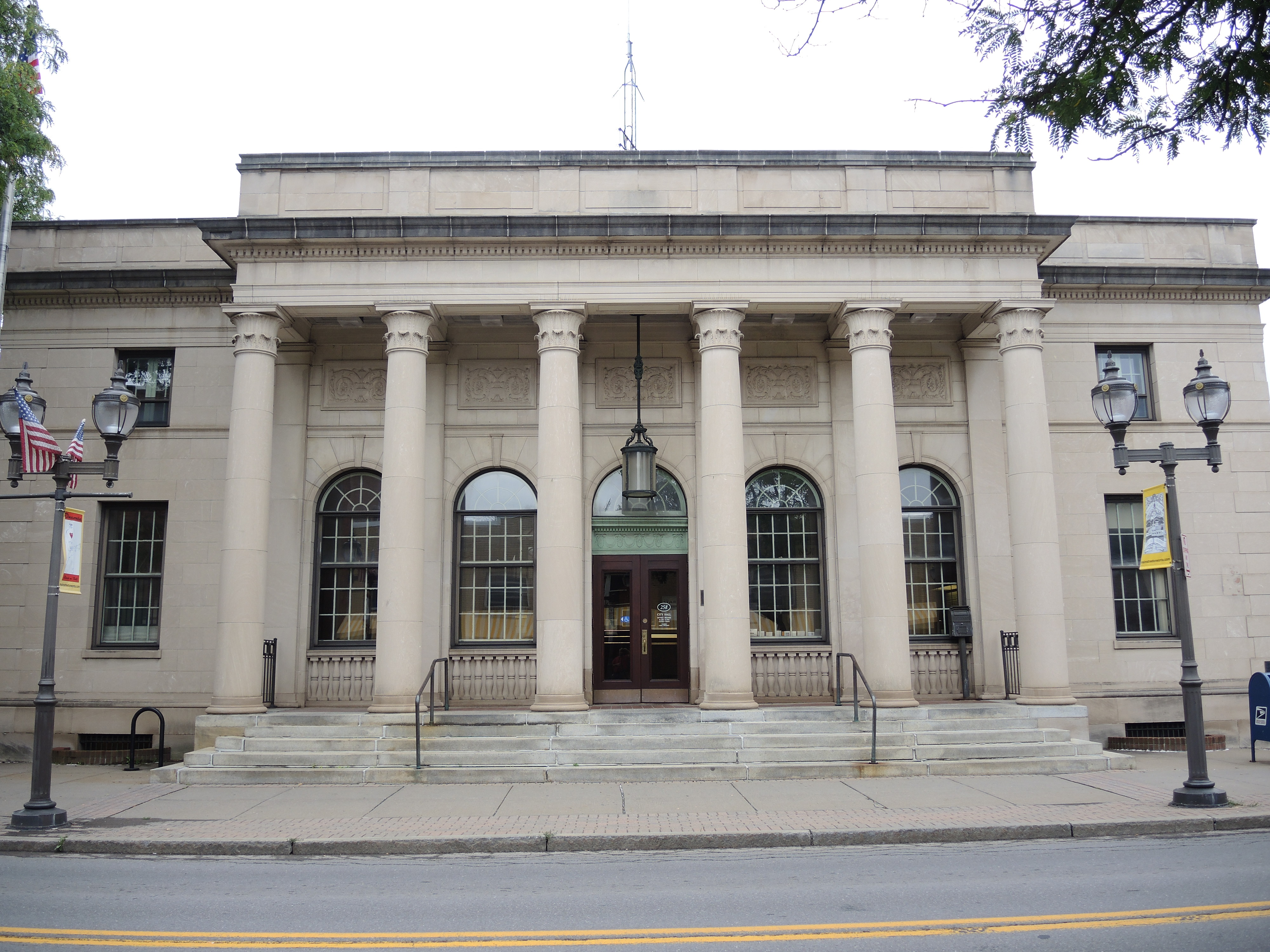 Present-day city hall (and former post office) in Oneonta, New York